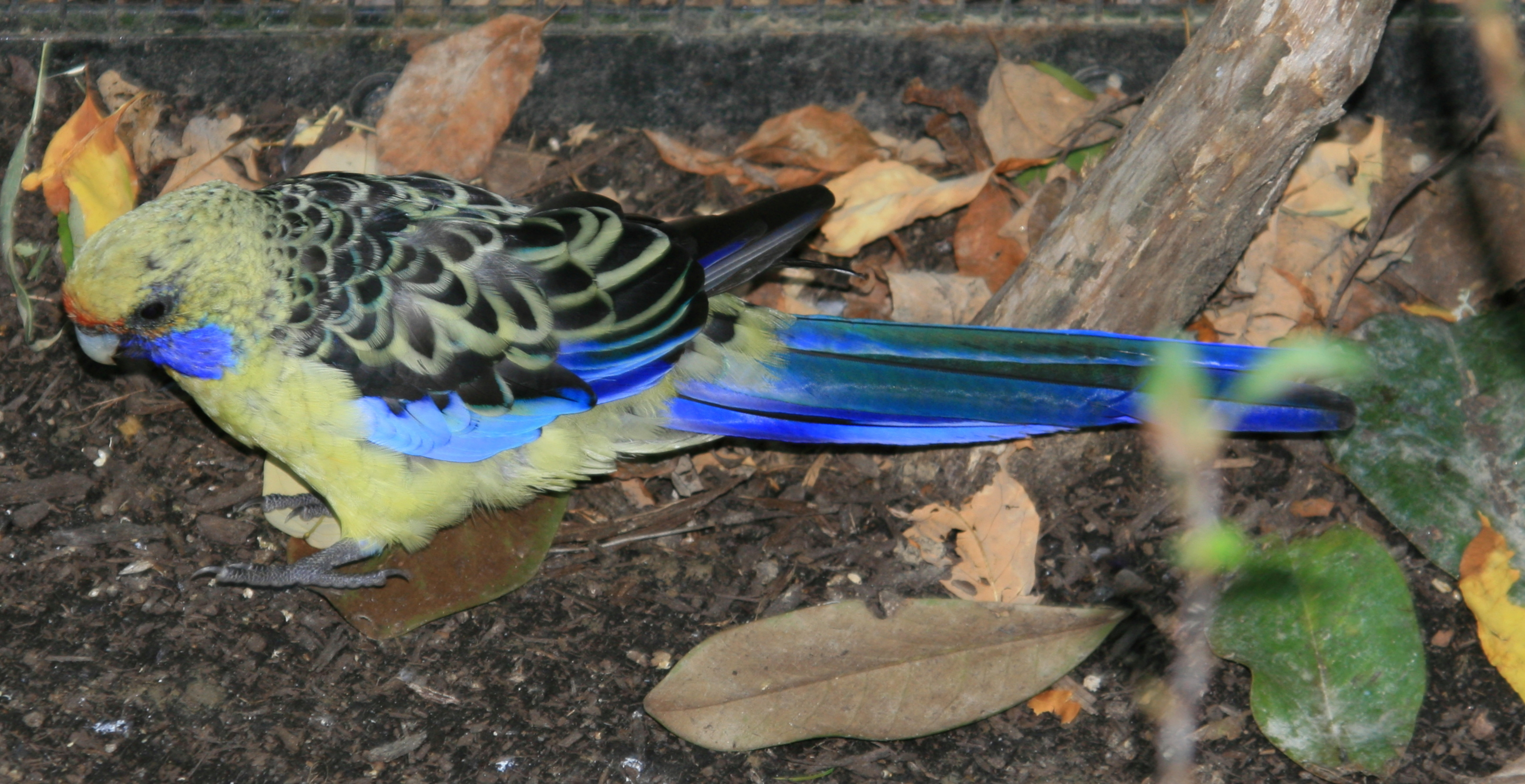 Yellow rosella - taken at the Cincinnati Zoo.